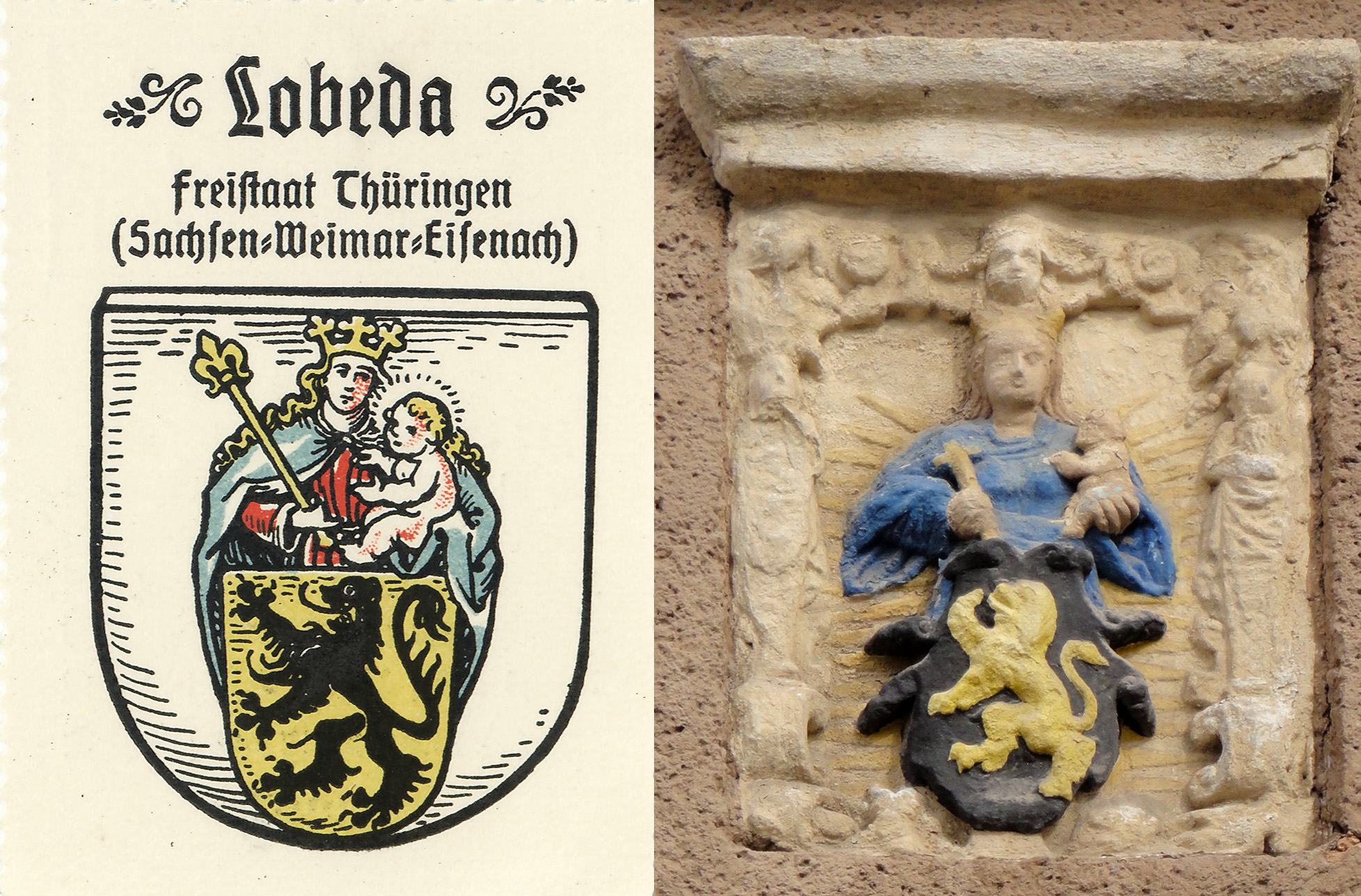 City of Lobeda: city arms